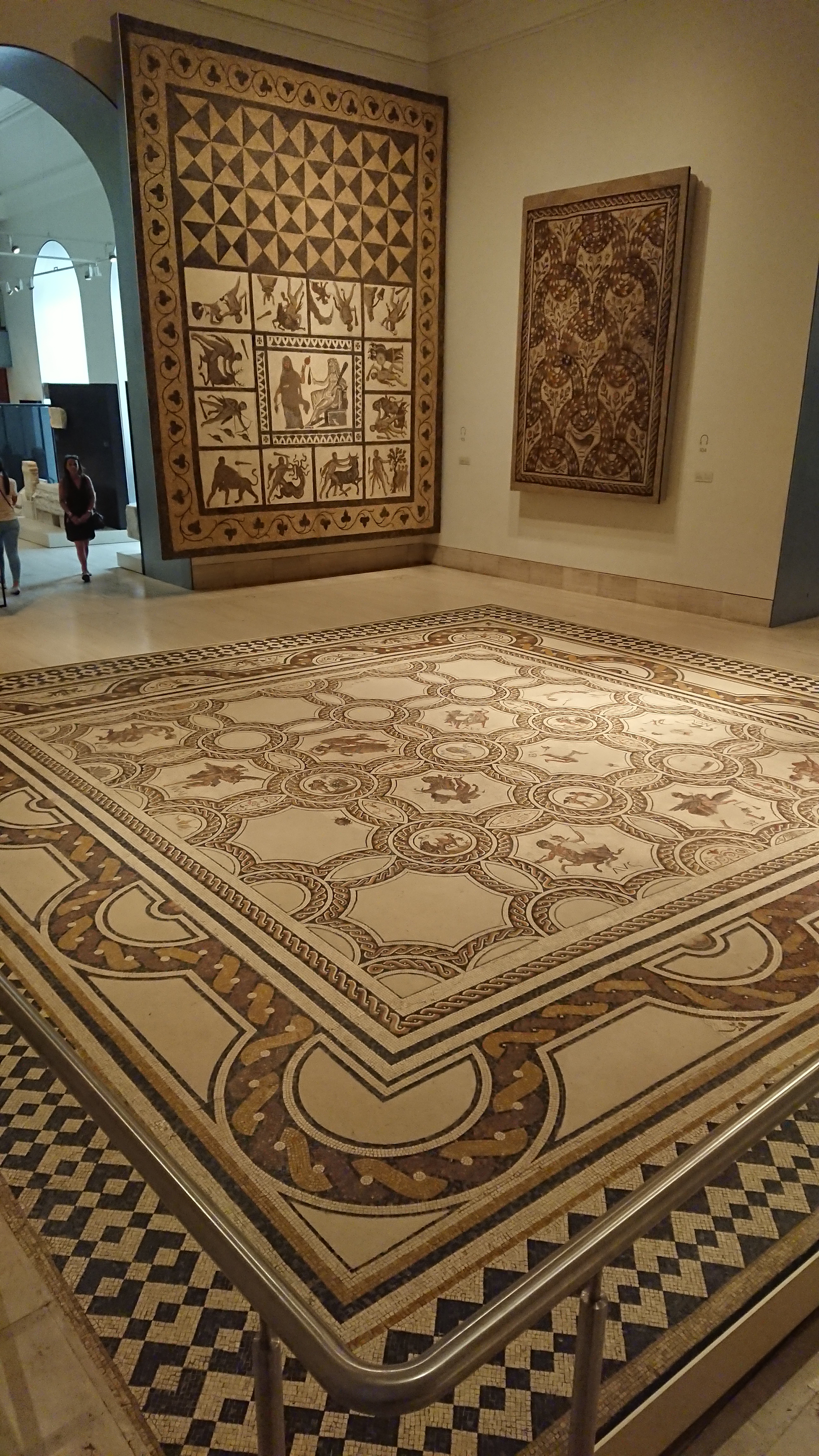 National Archaeological Museum, Madrid (Spain)